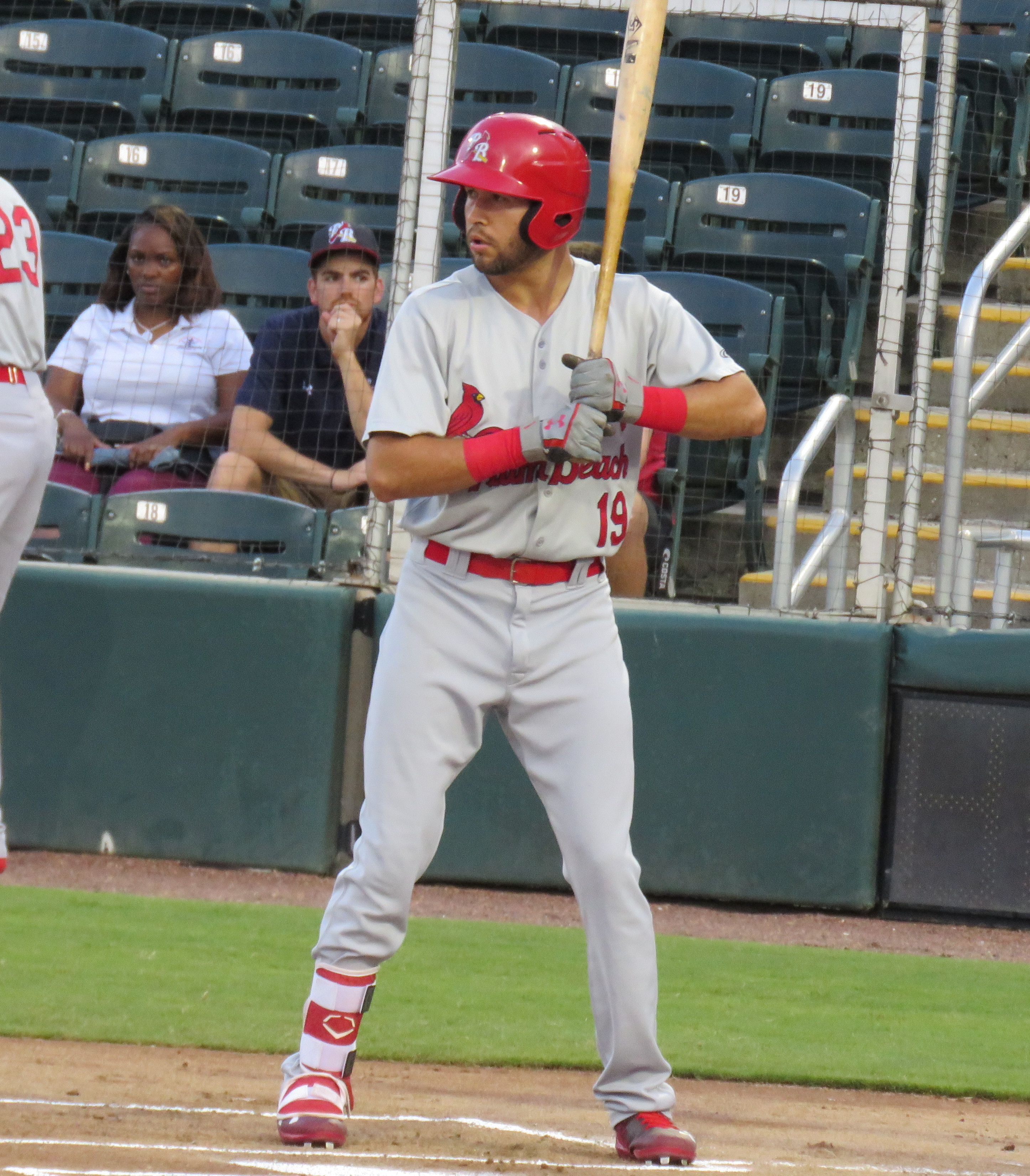 Carlson at bat